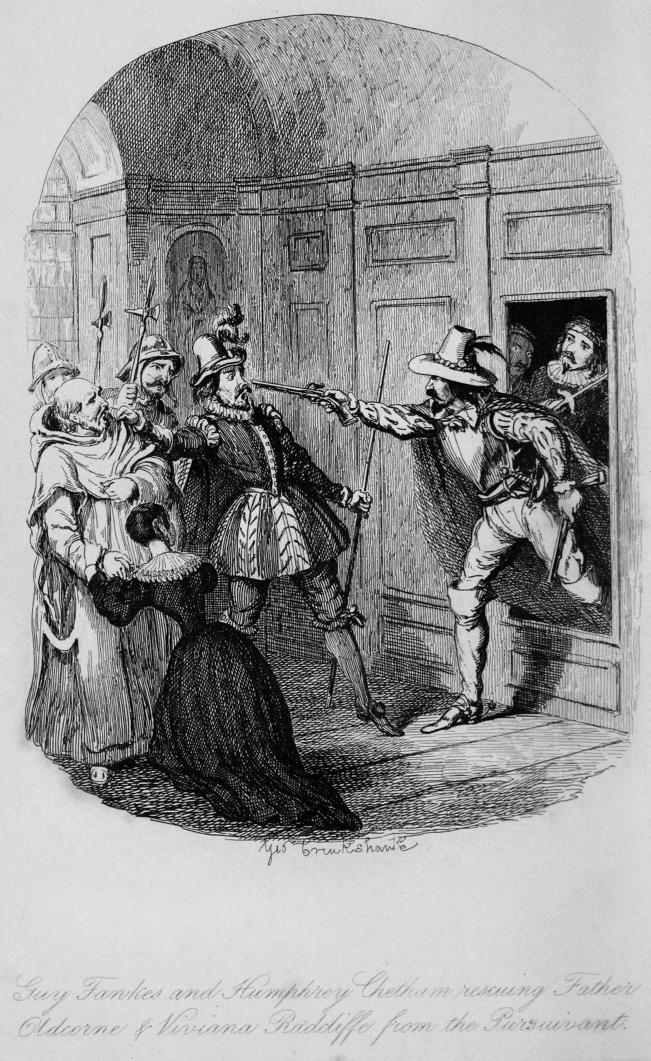 Frontispiece illustration to 1st edition of Guy Fawkes by Ainsworth